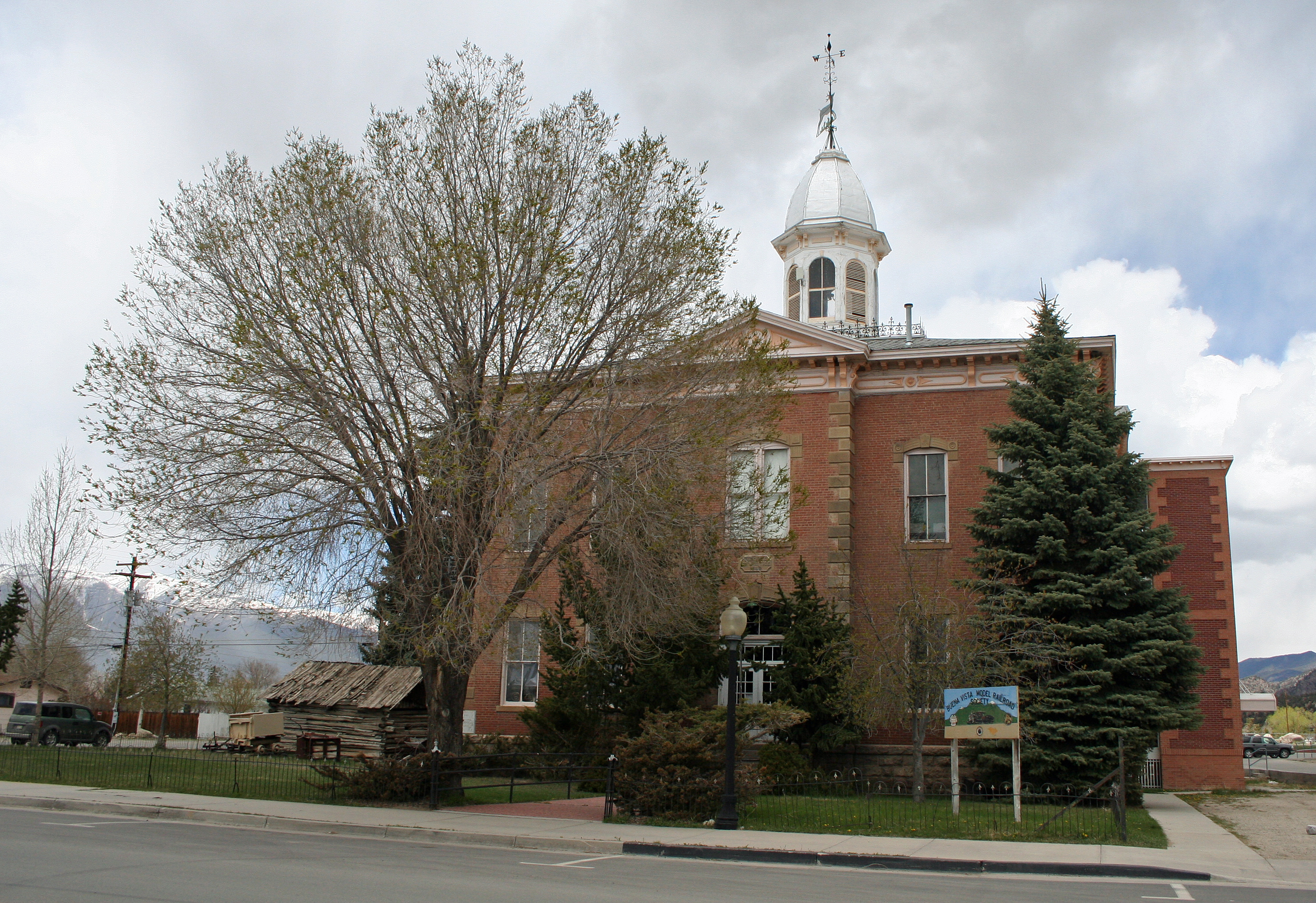 The Chaffee County Courthouse and Jail Buildings, located at 501 East Main Street in Buena Vista, Colorado. The complex is listed on the National Register of Historic Places in Chaffee County, Colorado.